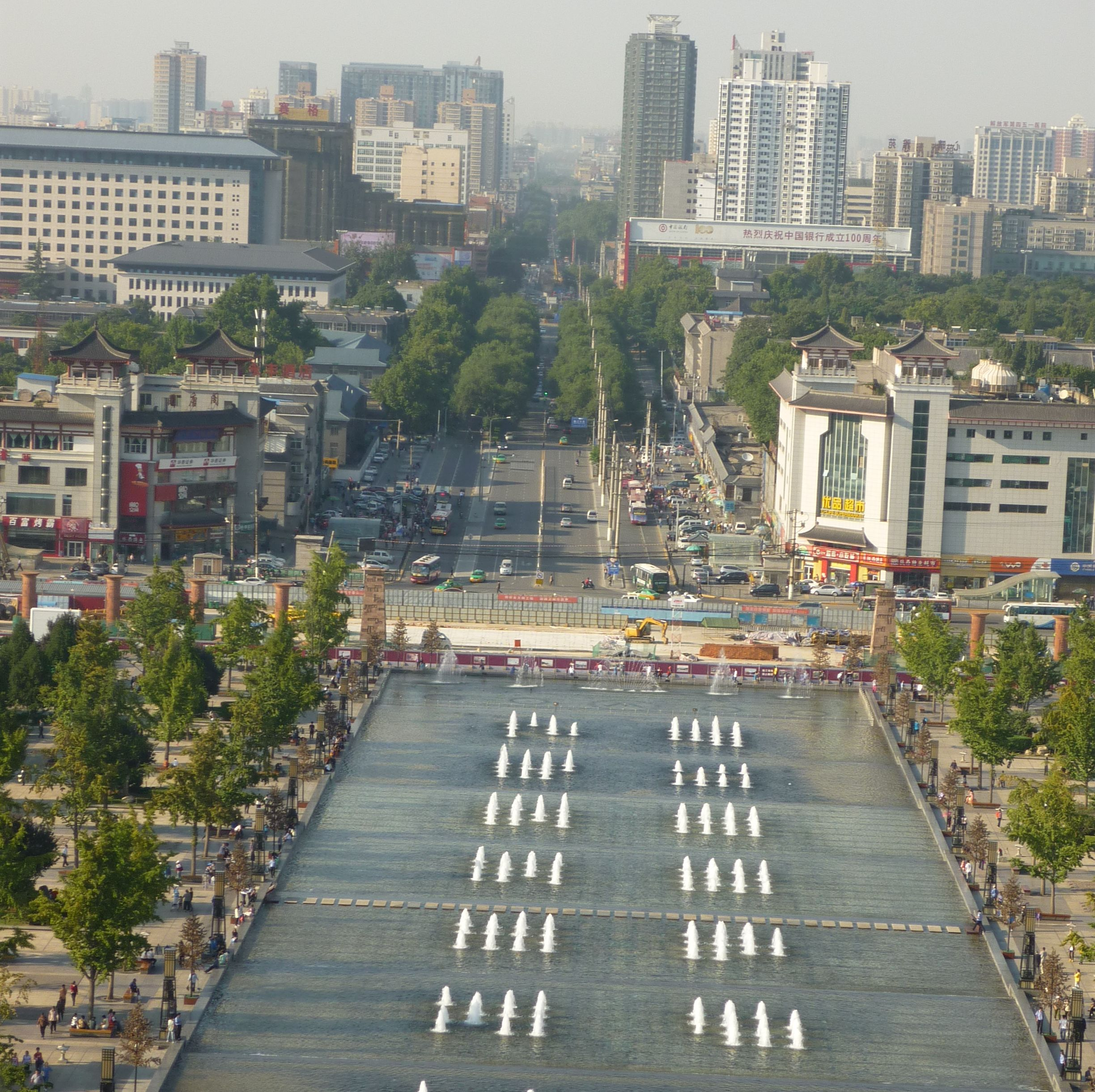 view from the Giant Wild Goose Pagoda (大雁塔)